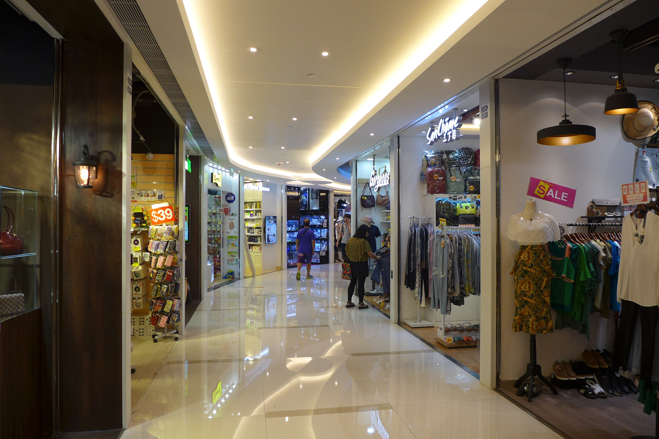 Sheung Shui Centre New shops in 2017